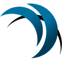 Safex Coin Logo